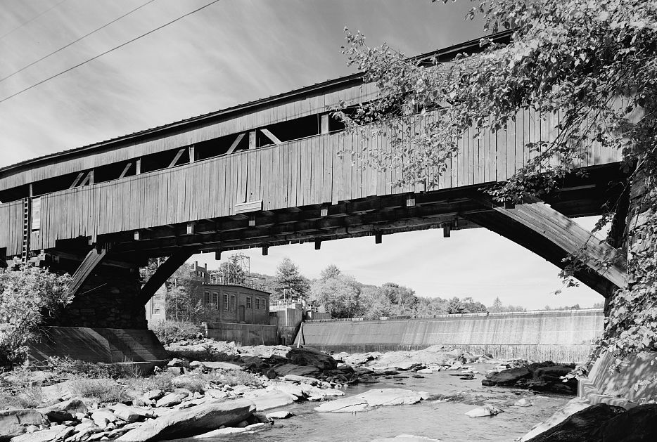 Taftsville Bridge, Spanning Ottaquechee River, Taftsville Bridge Road, Taftsville vicinity (Windsor County, Vermont) cropped This image or media file contains material based on a work of a National Park Service employee, created as part of that person's official duties. As a work of the U.S. federal government, such work is in the public domain. Creator: U.S. Department of the Interior, National Park Service, Historic American Engineering Record. Survey number HAER VT-30-12 Source: U.S. Library of Congress, Prints and Photographs Division, "Built in America" Collection. Copyright: "The records in HABS/HAER were created for the U.S. Government and are considered to be in the public domain." [1] Object location 43° 38′ 23.00″ N, 72° 28′ 5.00″ W - OpenStreetMap - Proximityrama (Info)